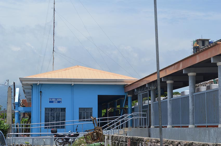 Exterior of Calamba railway station in Calamba, Laguna in the Philippines. Tagalog: Labas ng estasyong daangbakal ng Calamba sa Calamba, Laguna sa Pilipinas.